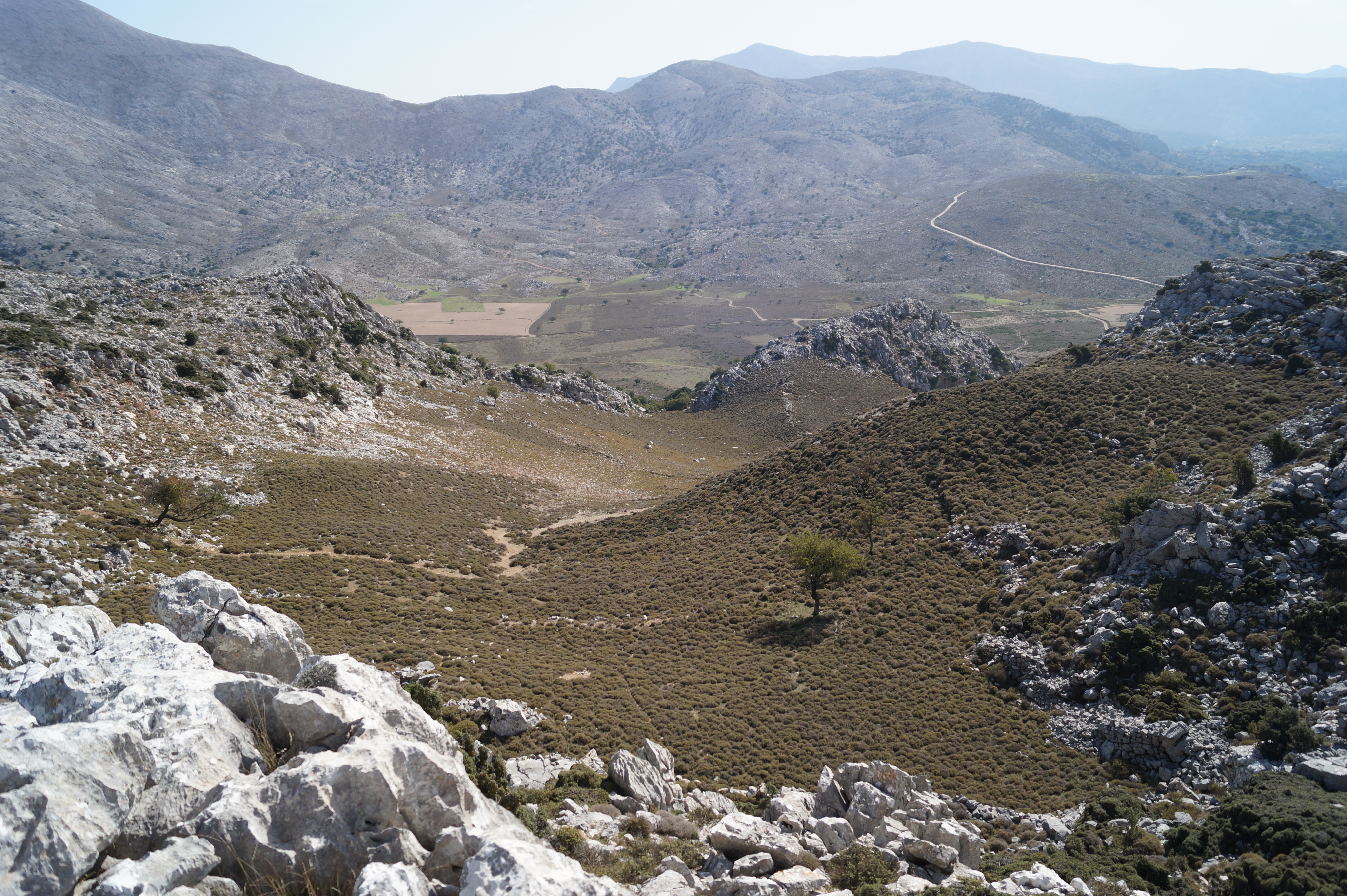 Lasithi, Crete: View from Mikri Koprana on the Nisimos Plateau.